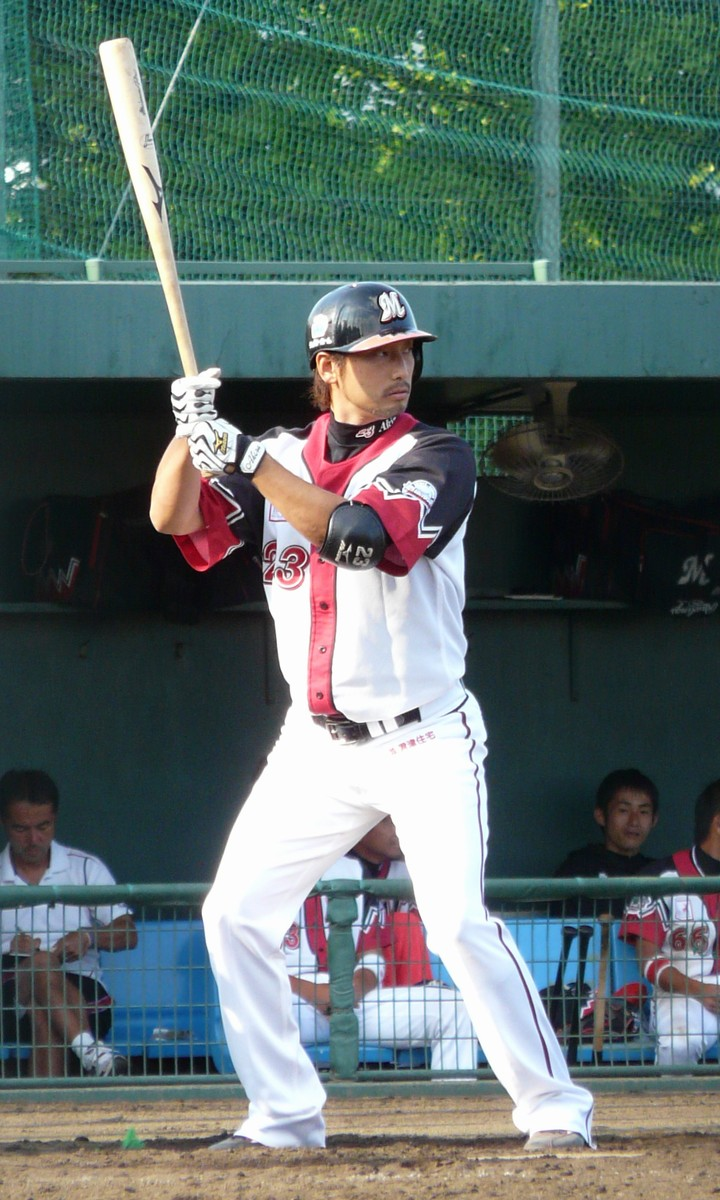 Akira Otsuka, outfielder of the Chiba Lotte Marines, at Lotte Urawa Baseball Ground.